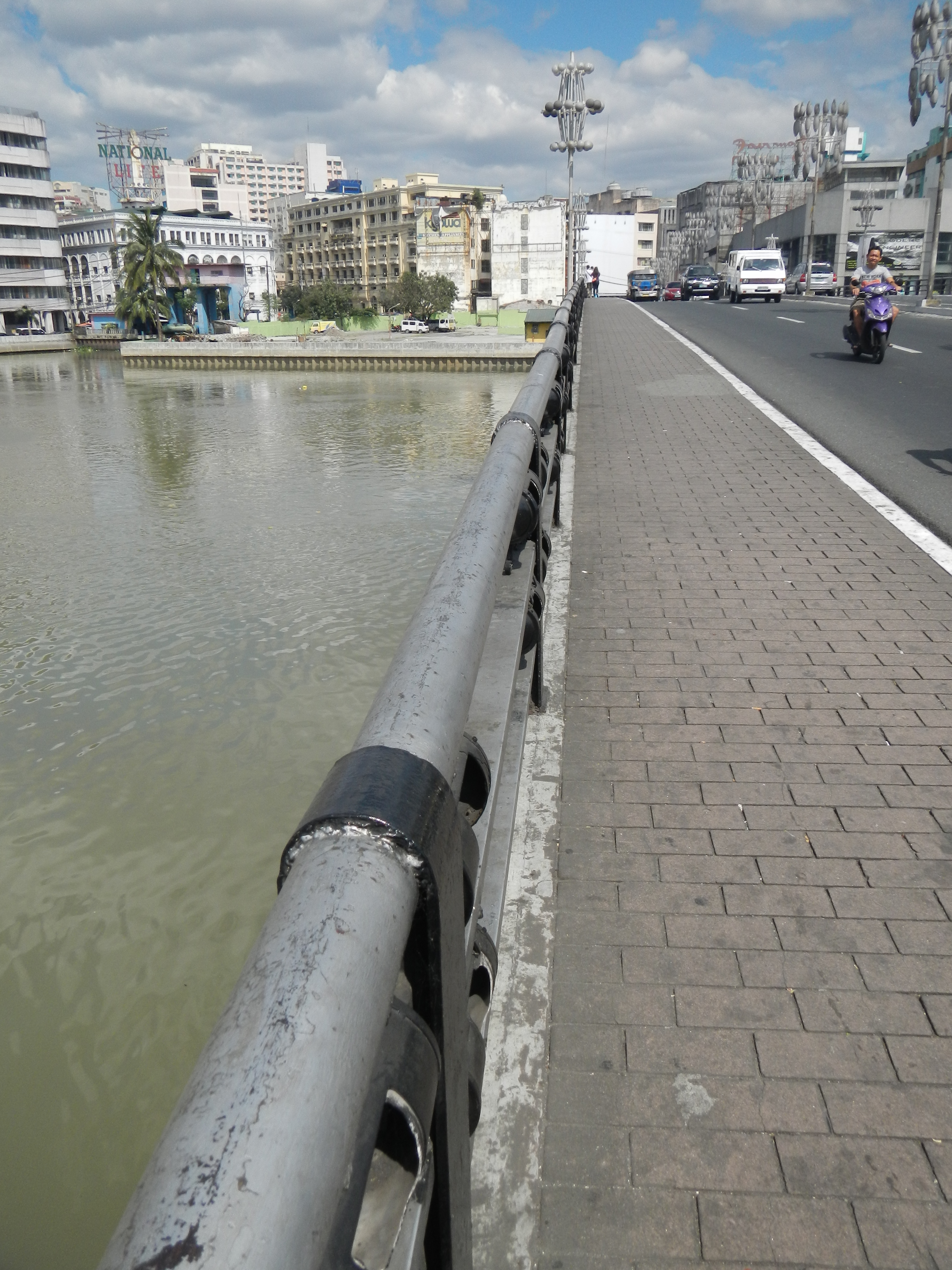 Upload Wizard photos (general description of the landmarkds, angle by angle photography of the city, town, rivers, bridges and interesting points) - Escolta Street[1] beside the a) Santa Cruz Bridge [2] connecting the district of Santa Cruz from Plaza Goiti to Arroceros Street in the old city center of Manila renamed as MacArthur Bridge after General Douglas MacArthur a simpler reinforced concrete beam bridge; the FEATI University, Barangay 303 Zone29 Hall [3] b) General Douglas McArthur Monument, Statues, Battle of Leyte [4] Palo[5] Beach, Leyte, 20 October 1944 20 October – 31 December 1944 "The Landing in Leyte" Memorial (Gen. Douglas MacArthur Monument) (Manila) [6] Coordinates: 14°35'44"N 120°58'49"E Battle of Leyte Gulf [7] 23–26 October 1944 [8] c) Manila Central Post Office [9] and d) Liwasang Bonifacio; Post Office building was named "Plaza Lawton" before it was renamed in 1963 as Liwasang Bonifacio Henry Ware Lawton [10] List of parks in Manila[11] The original location is now called Liwasang Bonifacio (Plaza Lawton) Parián[12] The Parian / Pantin, historic name Parian de Arroceros (Arroceros : cultivators of rice, Spanish) was an area adjacent to Intramuros built to house Chinese merchants in Manila in the 16th and 17th centuries during the Spanish occupation of The Philippines.[1] The gate connecting it and Intramuros (where most of the Spanish colonial and administrative government was located) was called Puerta del Parian; today, this space is occupied by the Metropolitan Theater; The current day areas of Lawton and Arroceros Forest park [13] occupy the area previously known as Parian.